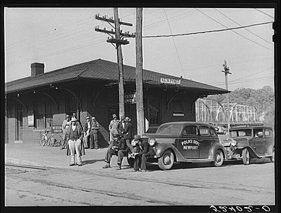 Depot and automobiles in Newport, Tennessee, USA.